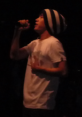 Tablo performing in San Francisco for Epik High's Map the Soul concert May 15, 2009.